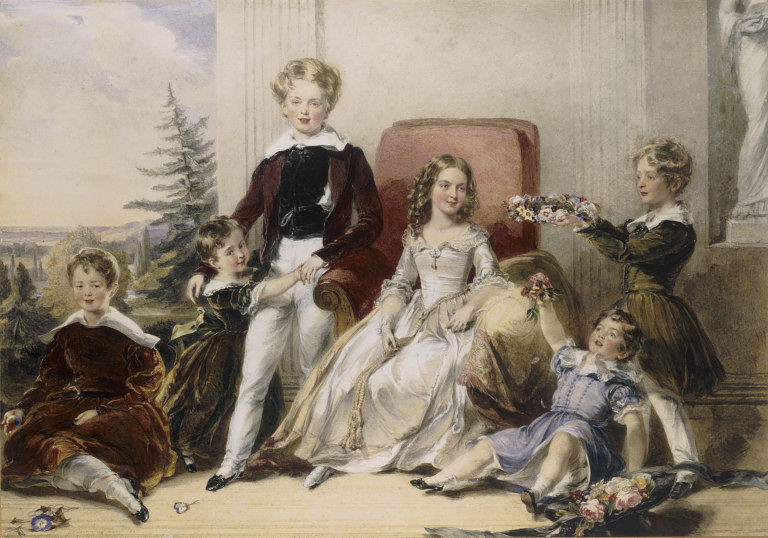 Watercolour portrait of children of Elhanan Bicknell (1788–1861), English businessman.